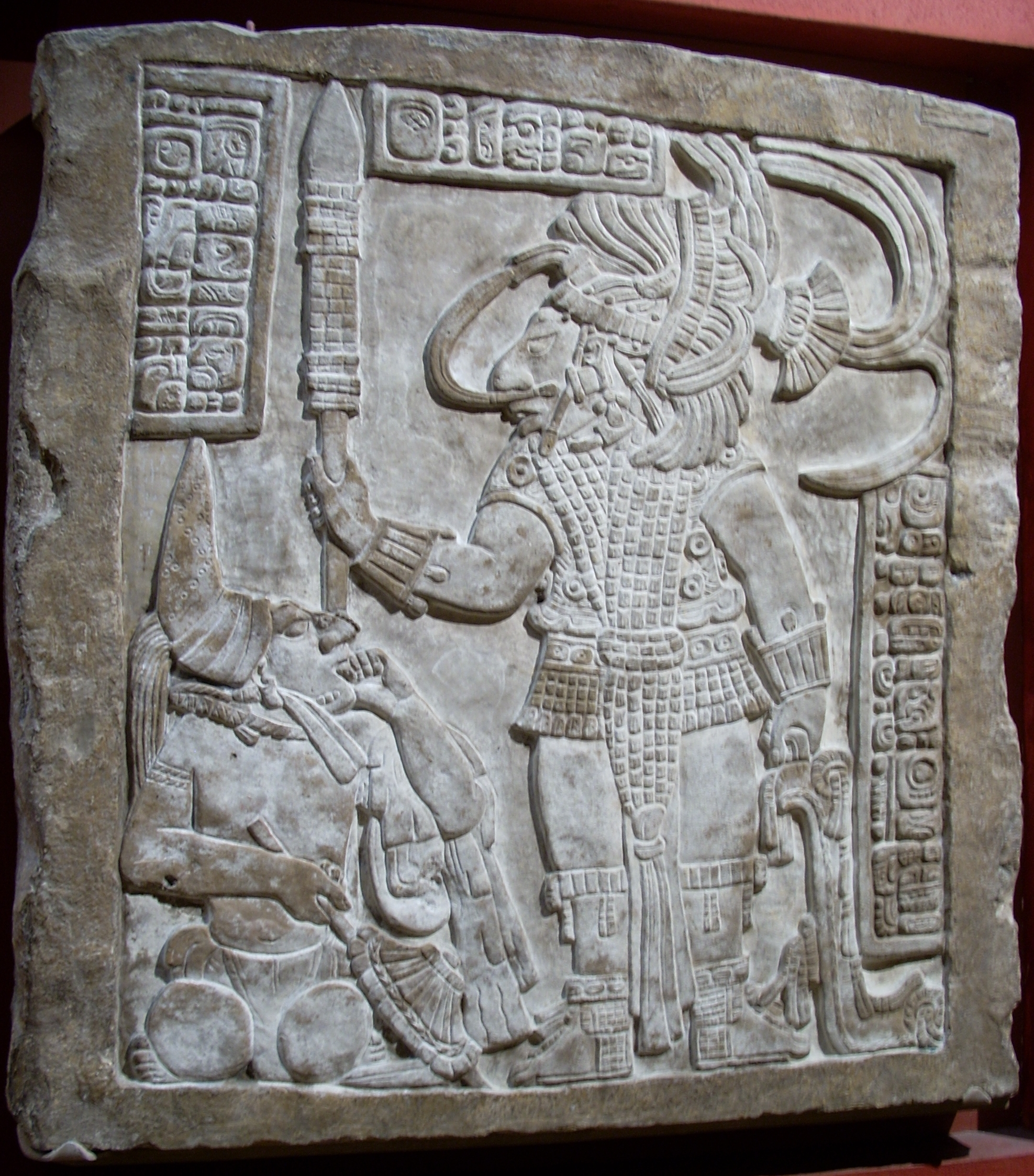 Lintel 16 from Yaxchilan, Chiapas, Mexico. Late Classic (AD 600-900). Now in the British Museum.